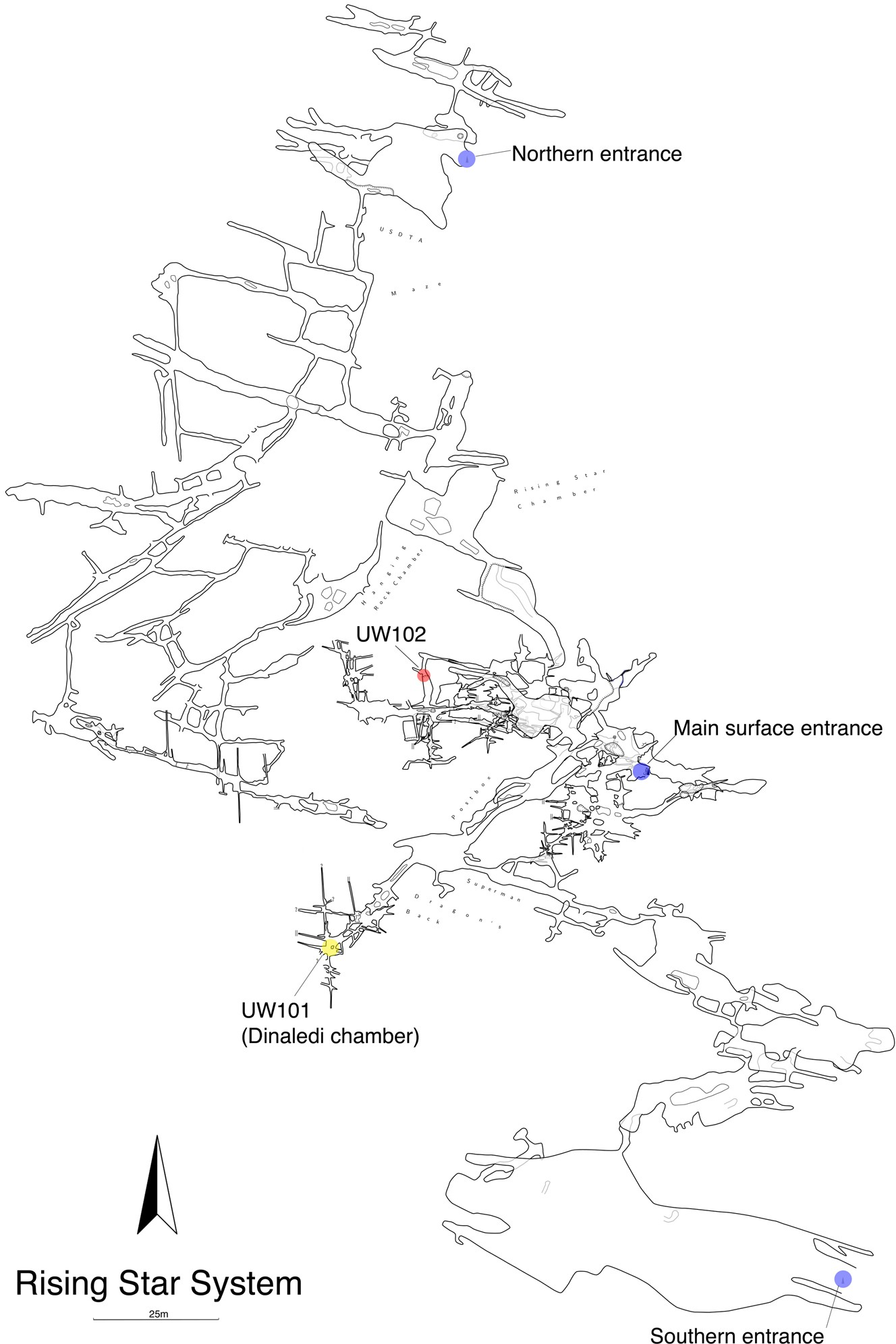 Location of the Lesedi Chamber (U.W.102) in the Rising Star system (red circle). The Dinaledi Chamber (U.W. 101) is marked by a yellow circle, while three surface entrances into the system are marked by blue circles